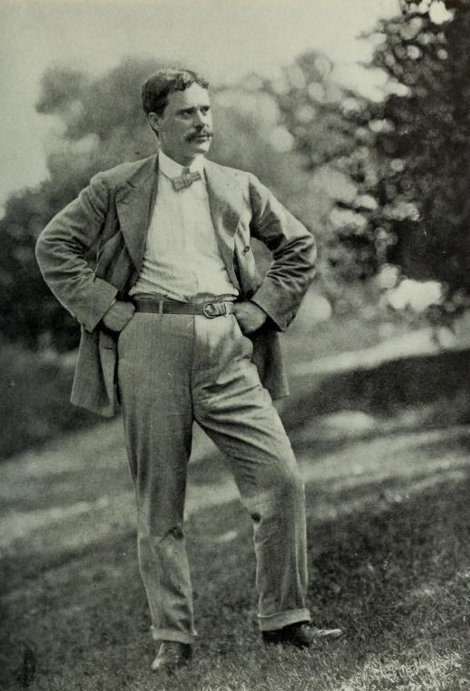 Owen Wister